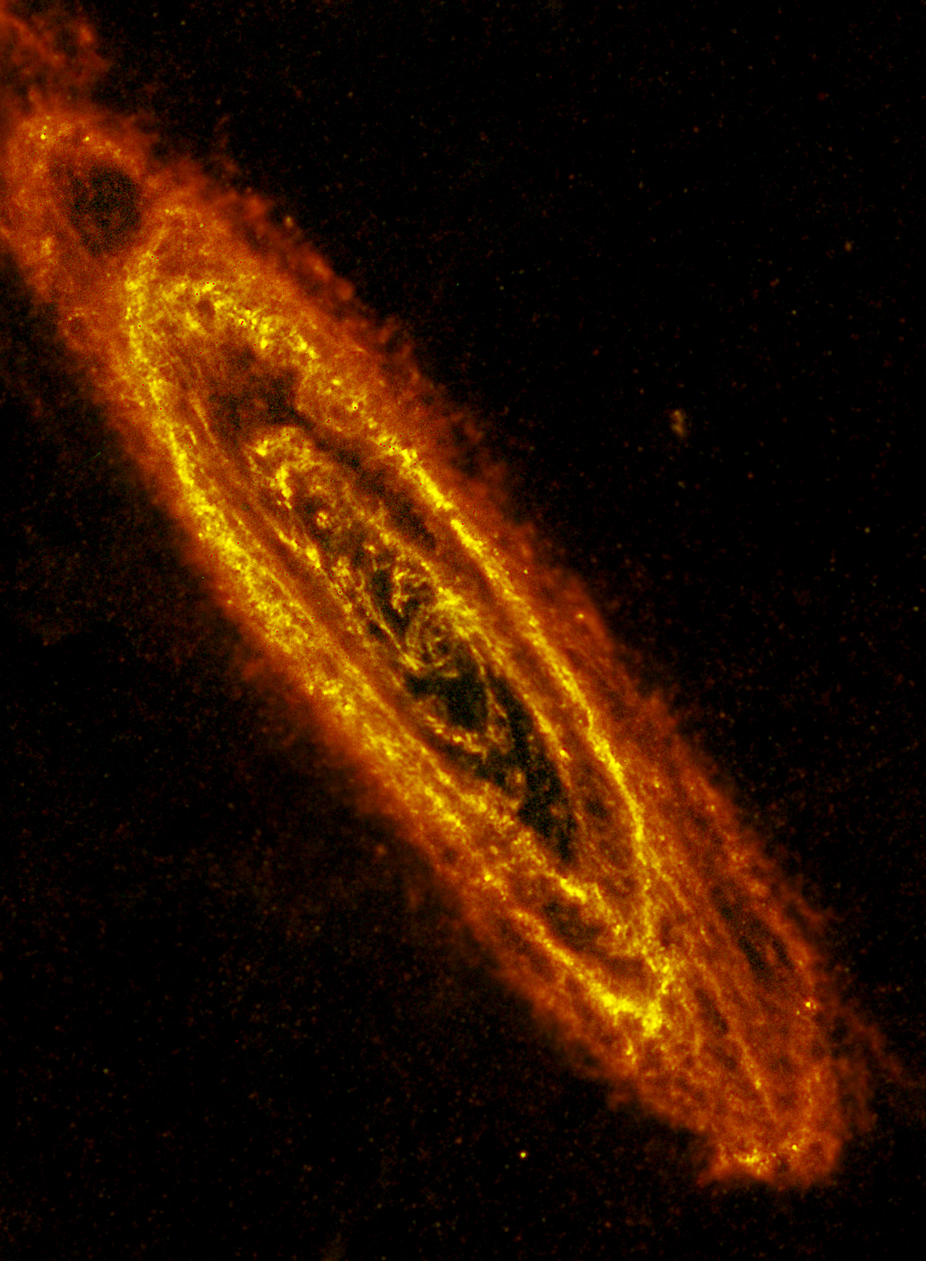 This image of the Andromeda spiral galaxy highlights explosive stars in its interior, and cooler, dusty stars forming in its many rings. The image is of an observation from the Herschel Space Observatory taken in infrared light. NASA plays a role in both of these European Space Agency-led missions. Herschel provides a detailed look at the cool clouds of star birth that line the galaxy's five concentric rings. Massive young stars are heating blankets of dust that surround them, causing them to glow in the longer-wavelength infrared light, known as far-infrared, that Herschel sees. Andromeda is our Milky Way galaxy's nearest large neighbor. It is located about 2.5 million light-years away and holds up to an estimated trillion stars. Our Milky Way is thought to contain about 200 billion to 400 billion stars. .